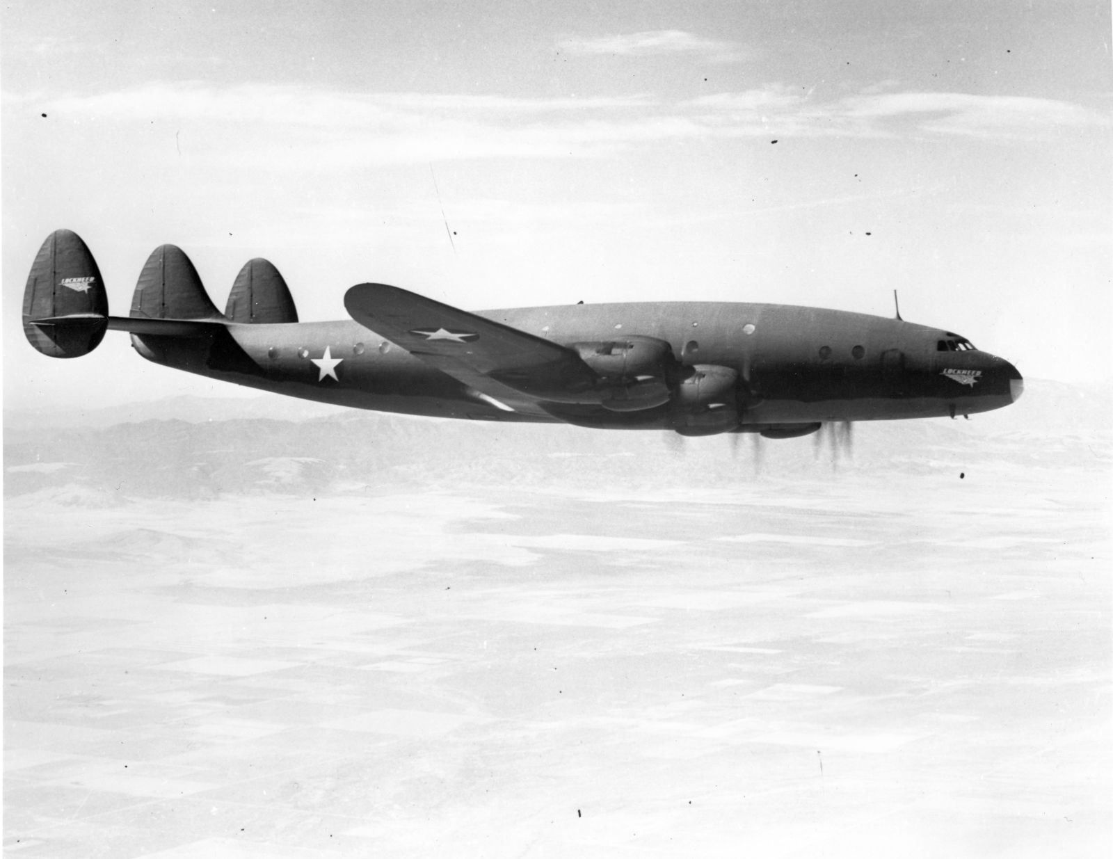 Lockheed C-69 Constellation